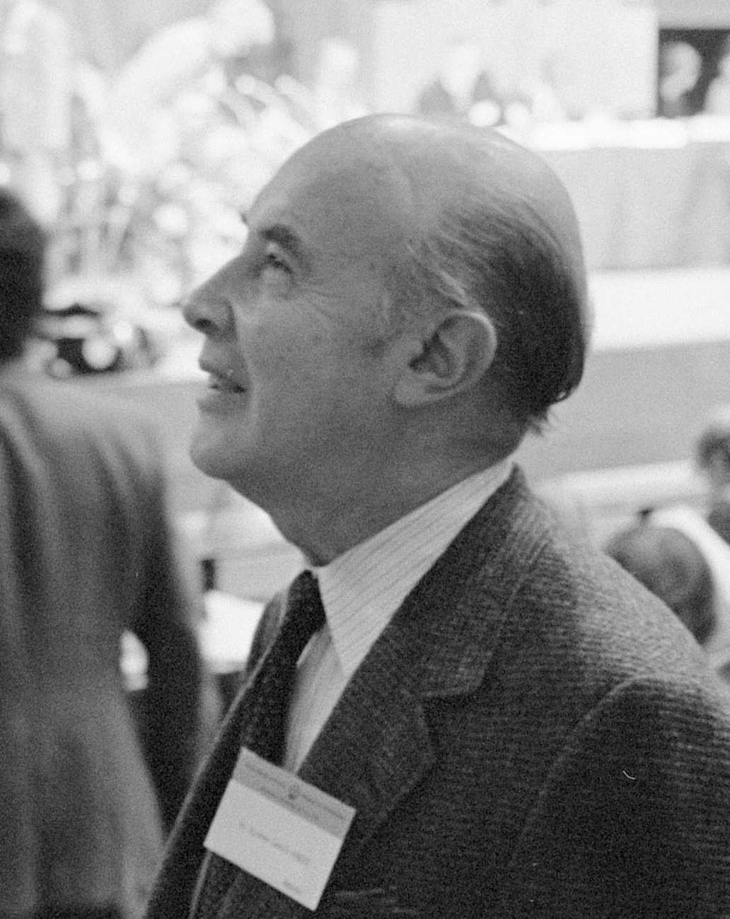 Alfonso Garcia Robles